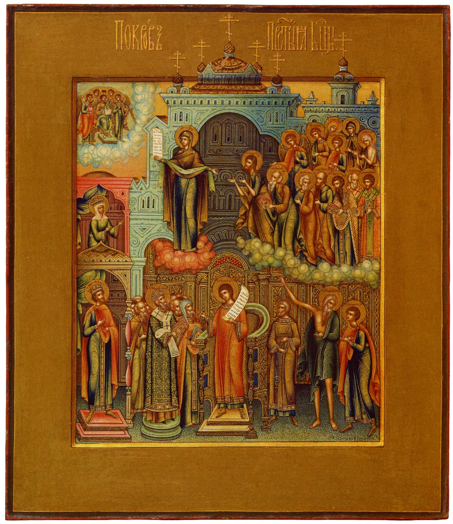 Intercession Monarchical Icon